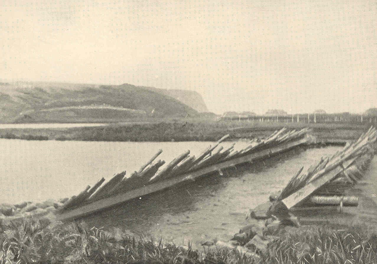 Salmon Weir (Zaporr), Sarana River, Bering Island Subject: Fish traps, Saranna River (Bering Island, Russia), Rivers--Russia Geographic Subject: Russia--Bering Island--Saranna River Tag: Traditional Fisheries